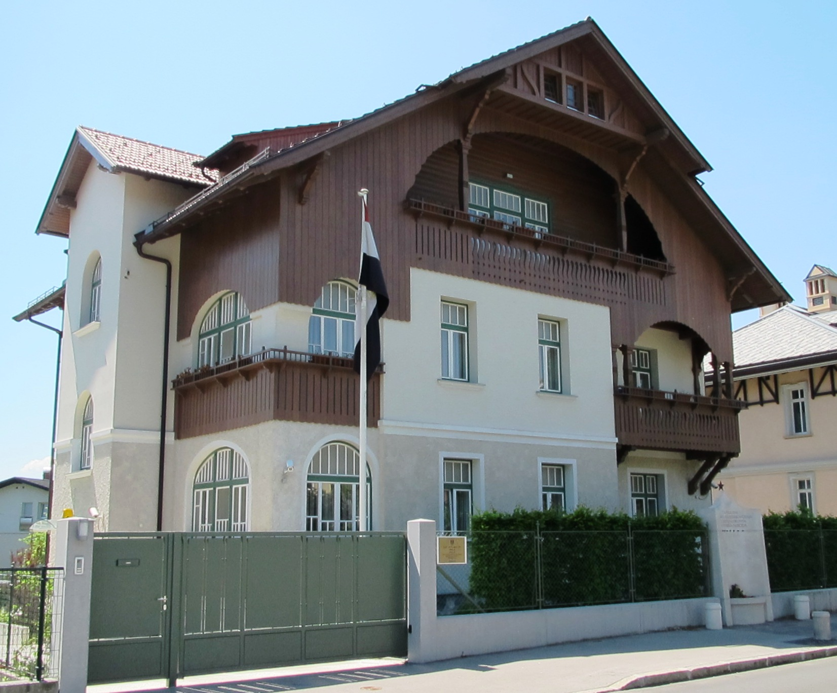 Josip Vidmar's house in Ljubljana at April 27th Street (Cesta 27. aprila) no. 51, where the Anti-Imperialist Front (later: Liberation Front of the Slovene Nation) was founded on 26 April 1941 (commemorated as 27 April 1941).